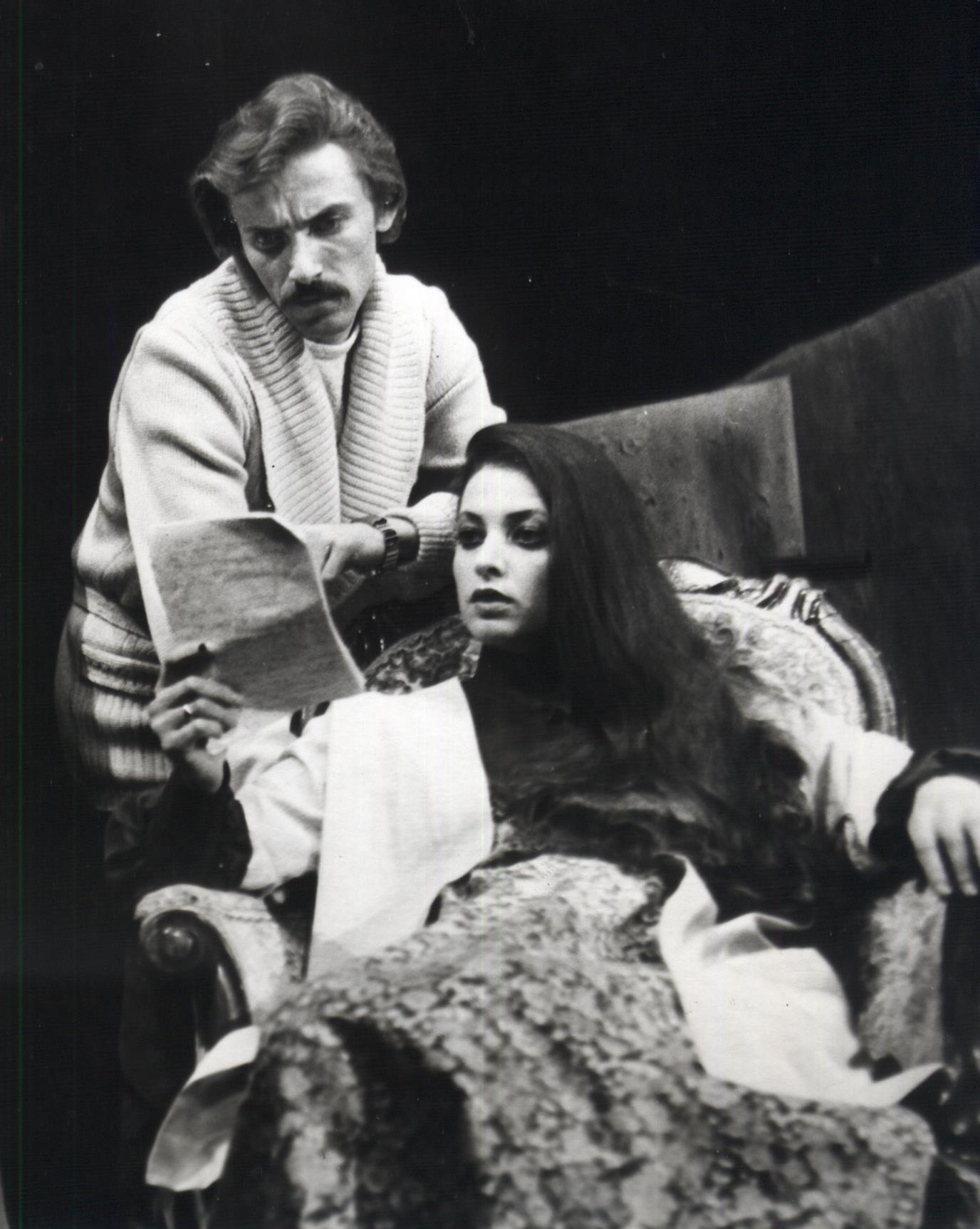 Yaroslava Mosiychuk